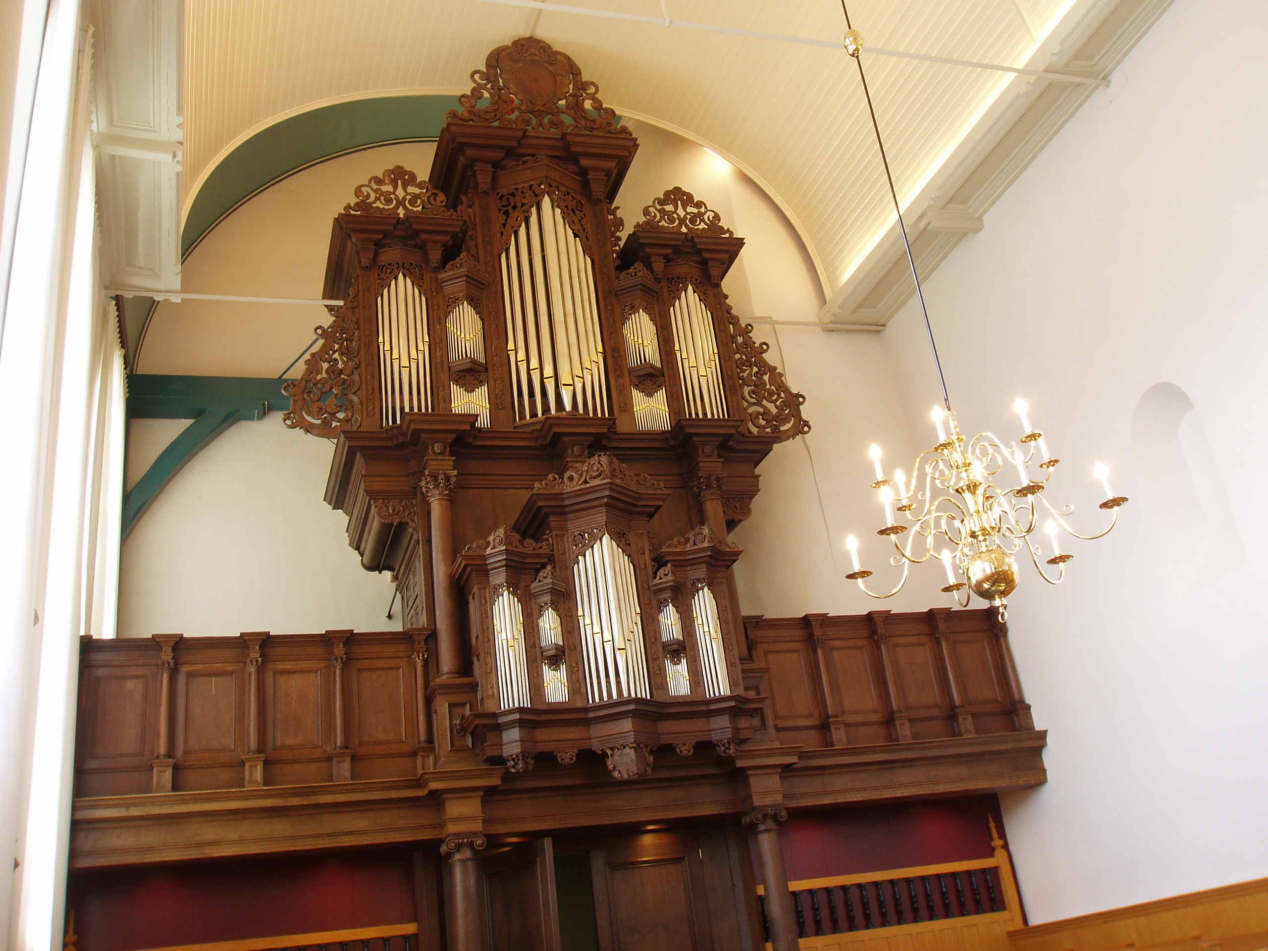 1652-1657 Andreas and Tobias Bader